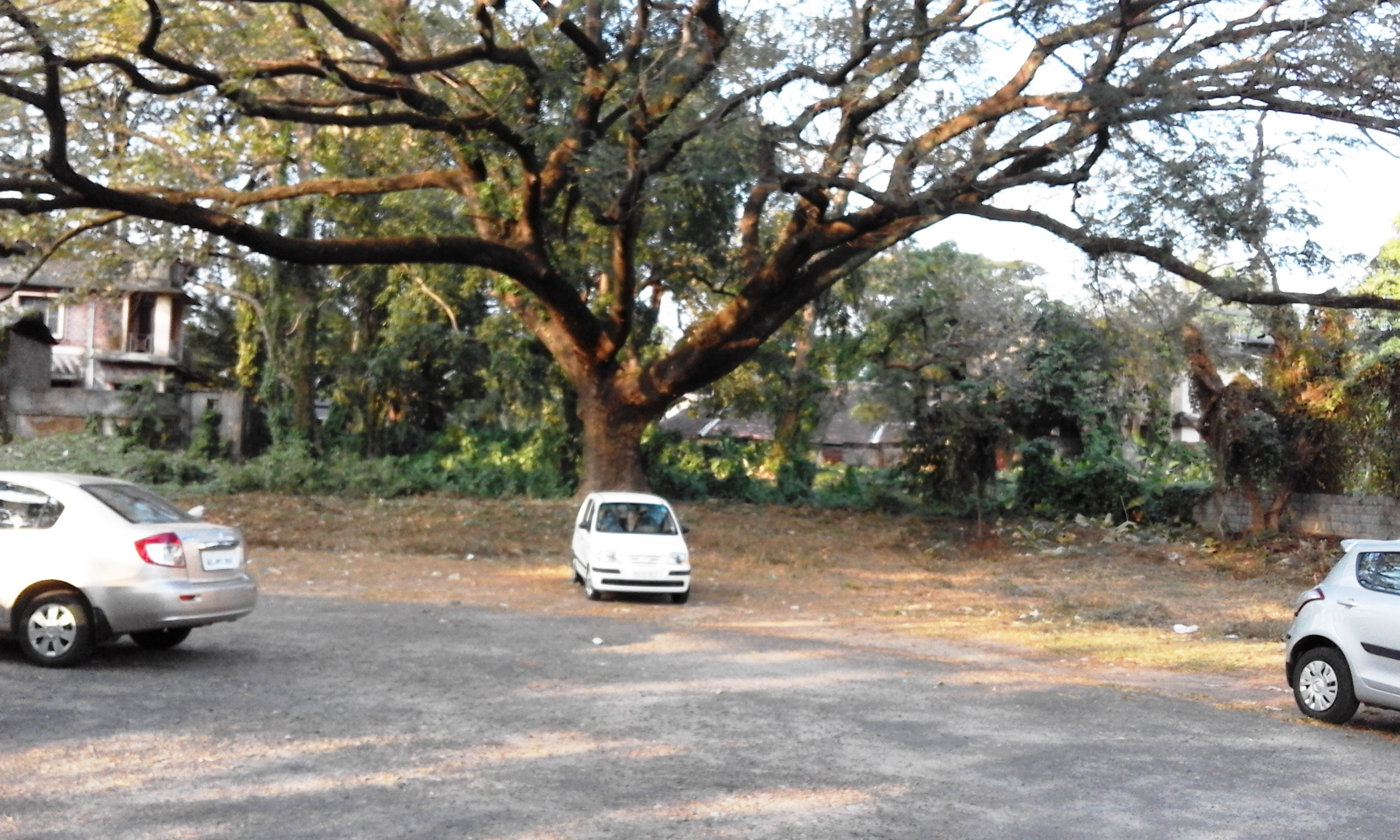 Palakkad, Kerala, India.